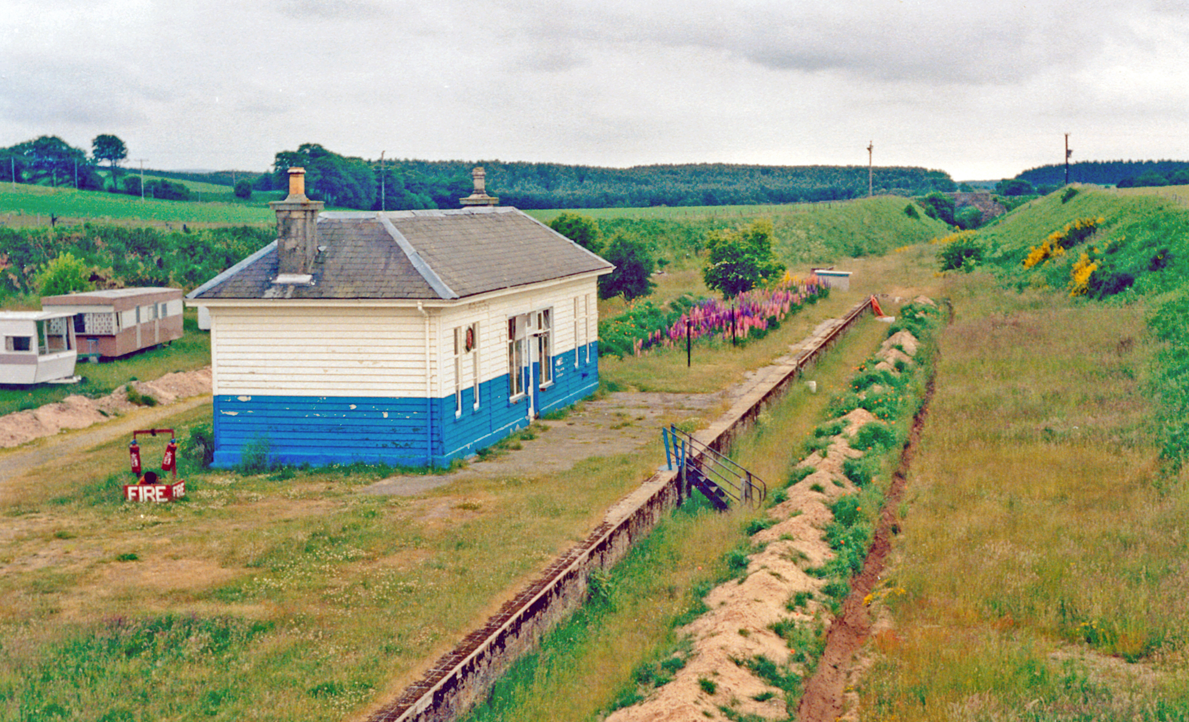 Urquhart station (remains), 1988. View westward, towards Buckie and Elgin: ex-GNSR Coast Line, Cairnie Junction - Buckie - Elgin, closed 6/5/68. Its use 20 years later is uncertain, but it seems someone lives here.